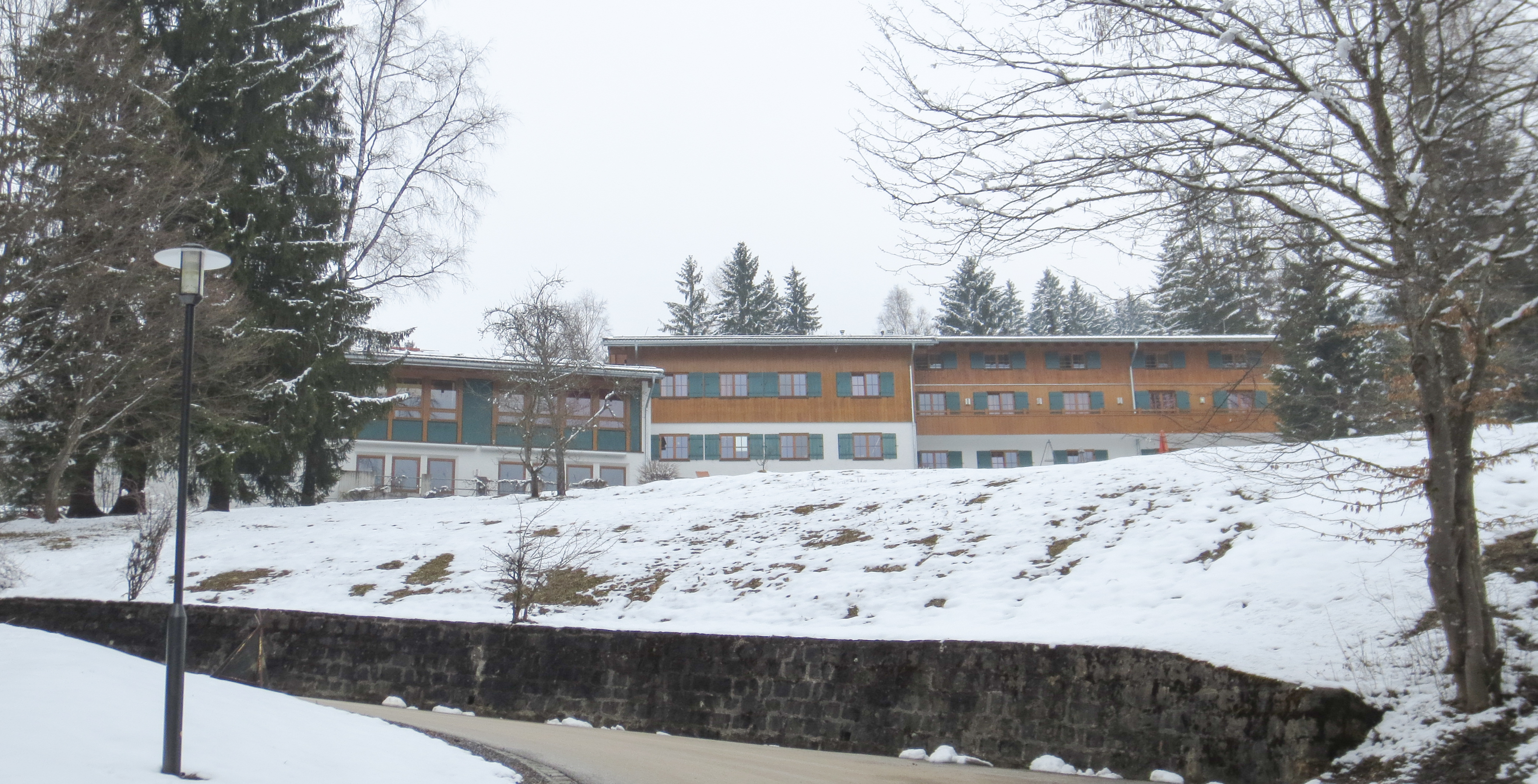 The youth educational center of the german trade union IG Metall in Schliersee. Outside. View to the silhoutte of the house.